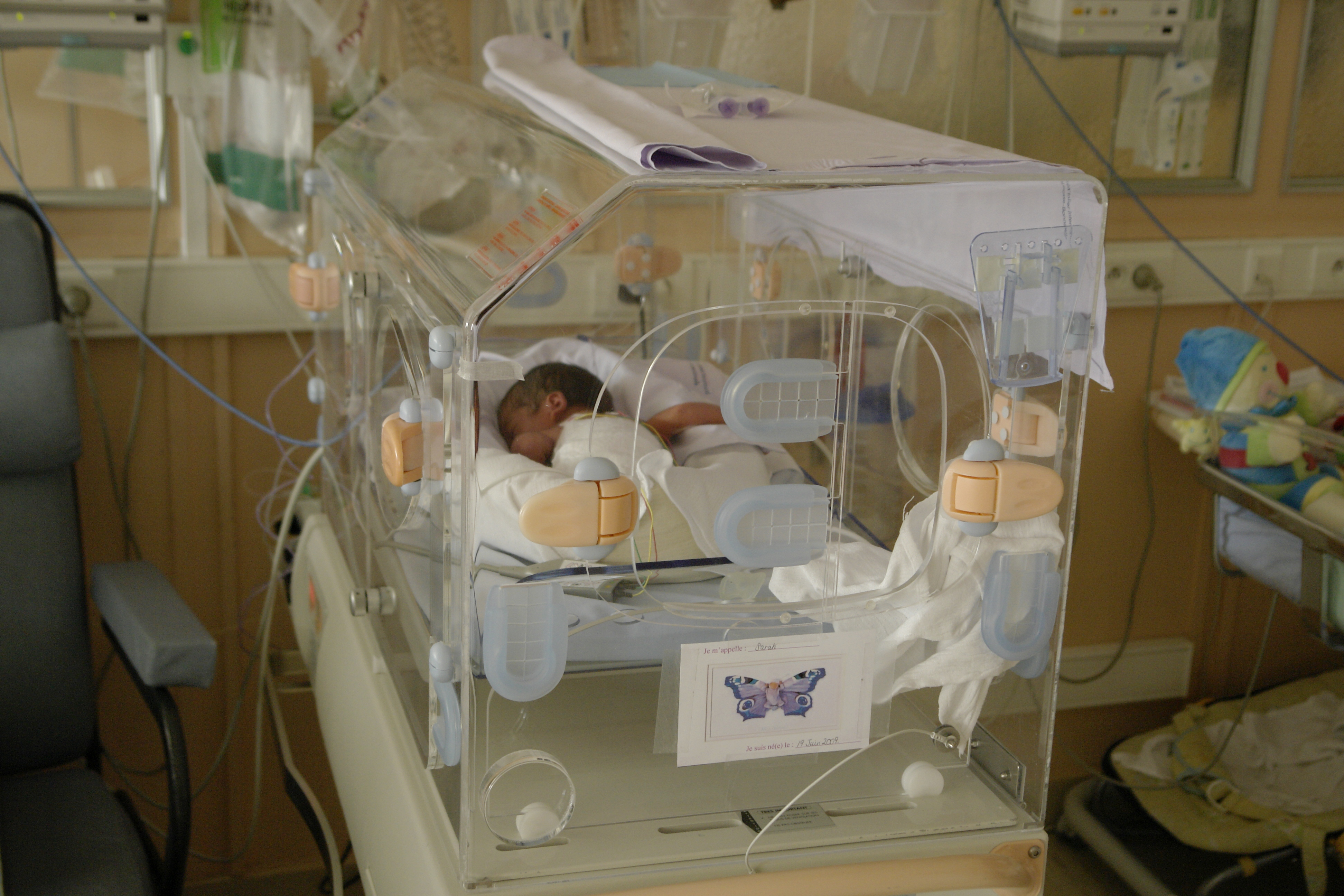 Incubator for premature, in an hopital of Annemasse (Haute-Savoie, Rhône-Alpes, France).